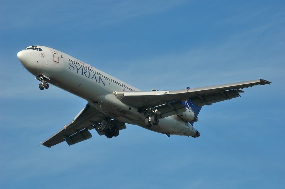 Boeing 727 Author: Dmitry A. Mottl email: dm_at_mottl.ru